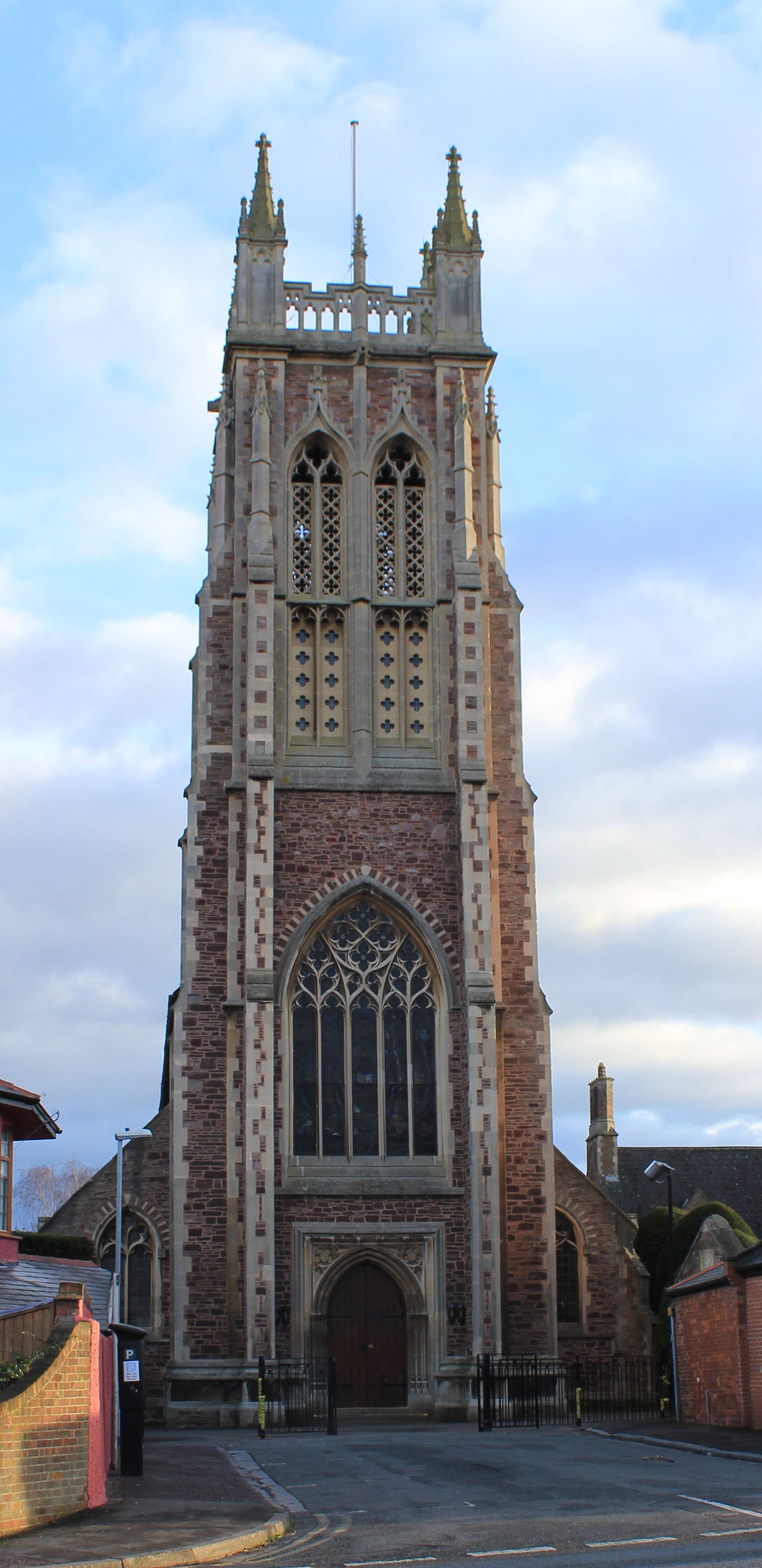 Roman Catholic Church of St George, Billet Street, Taunton, Somerset, seen from the northwest